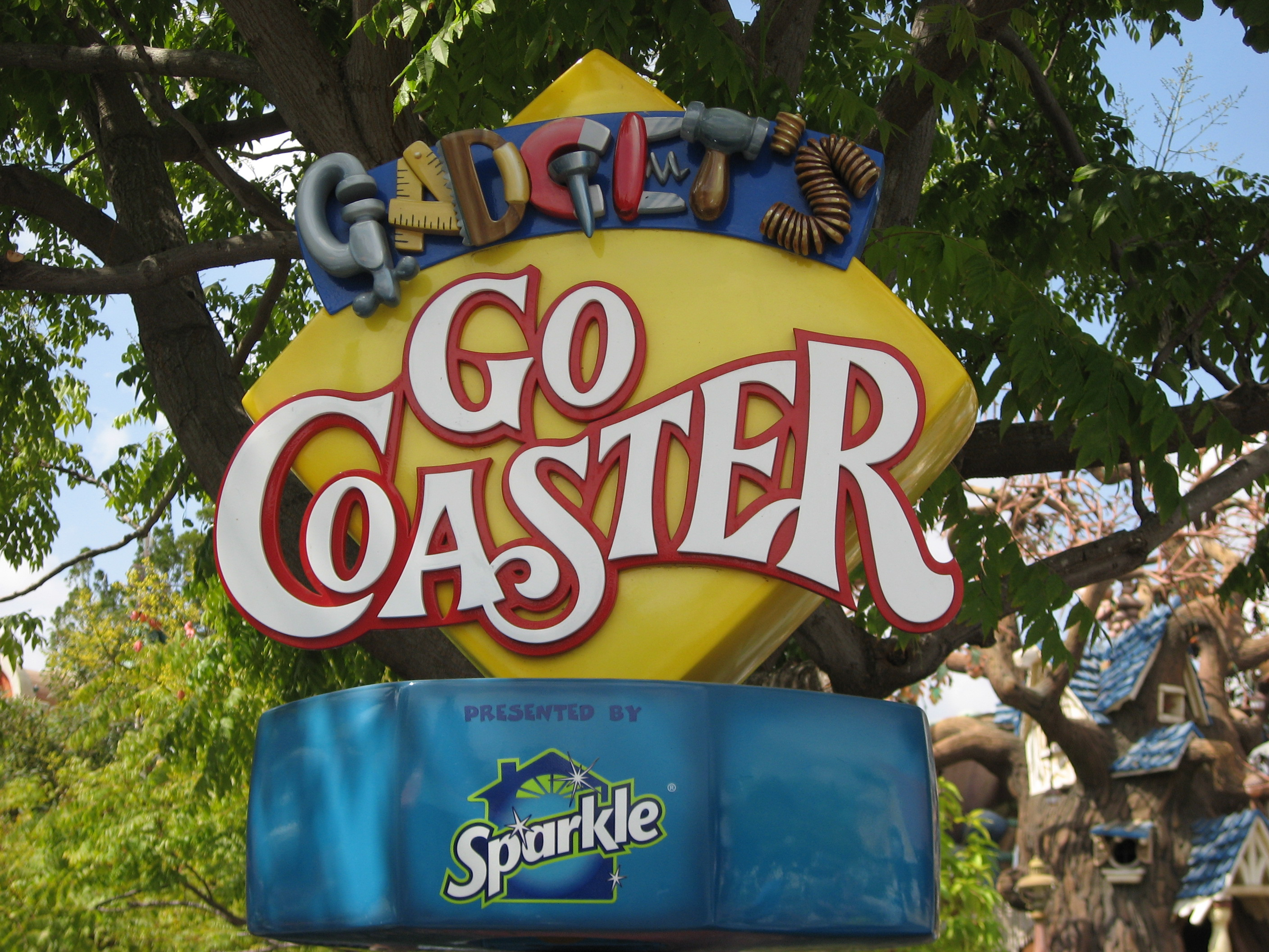 Gadget's Go Coaster sign at Disneyland.